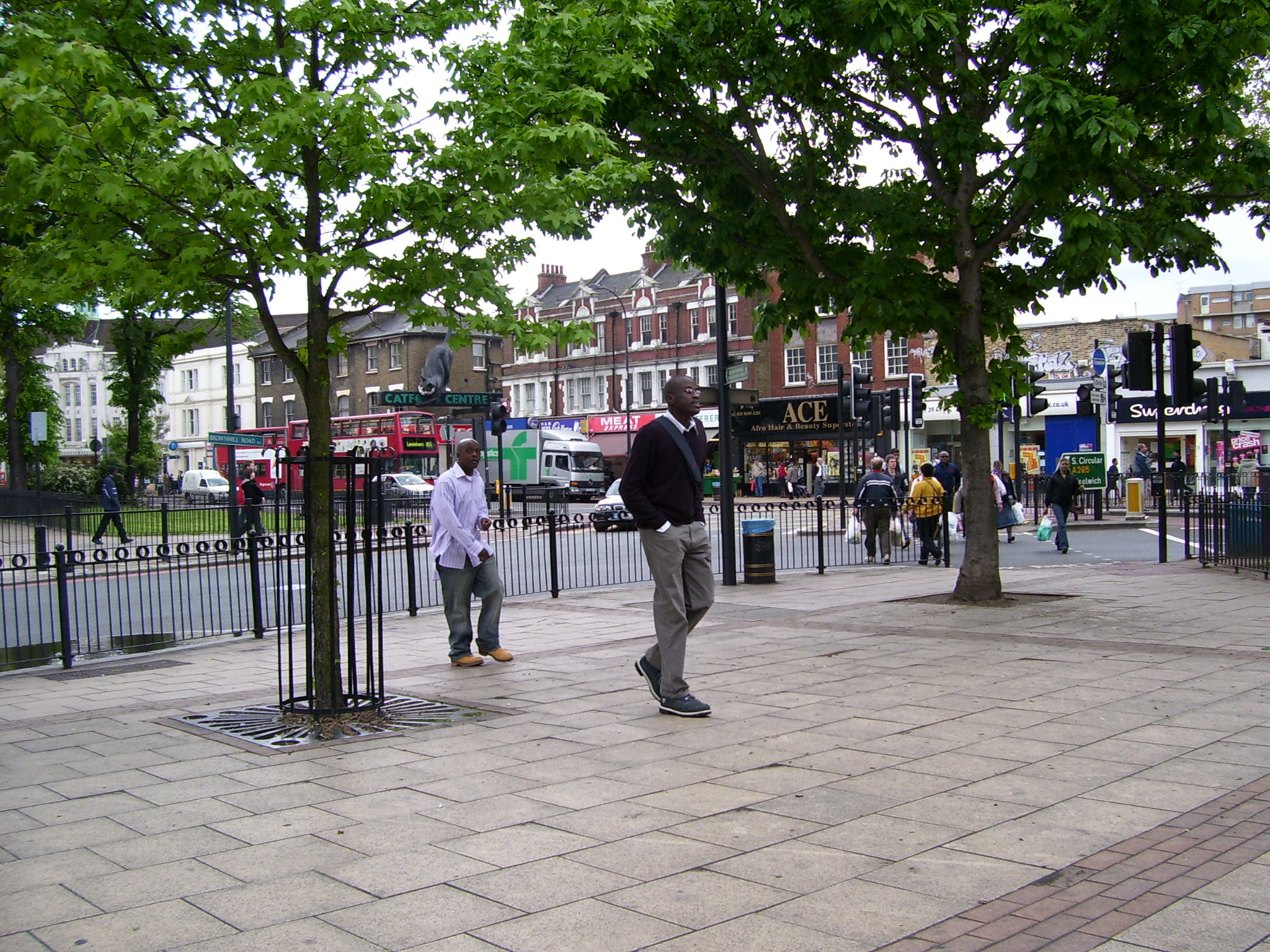 Catford Gyratory, 2006